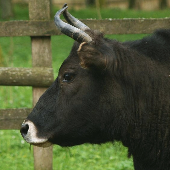 Żubroń or Zubron in Białowieża